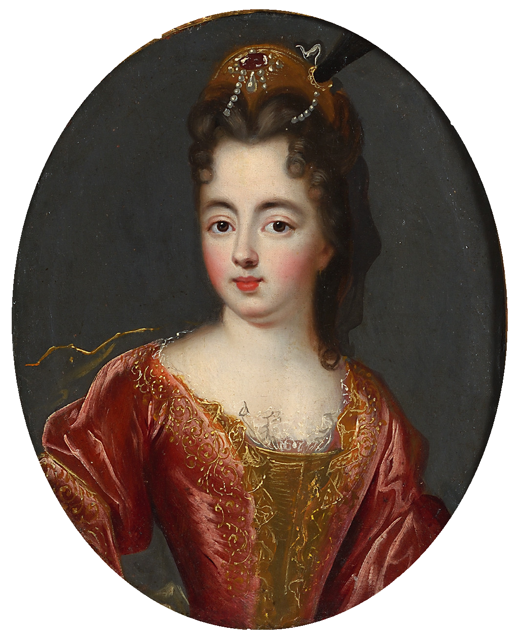 This intimate portrait study of Louise Francoise de Bourbon is taken from a three-quarter length portrait completed by François de Troy around 1690. At this time King James II was in exile at Saint-Germain-en-Laye and de Troy became the principal painter to the court. He was subsequently appointed a Professor in 1698 and later Director of the Academie Royale. His skill as an engraver meant he enjoyed wide-reaching influence in artistic circles, which led to his portrait work being circulated even more widely. This particular portrait would more than likely have been produced for a friend or member of court. At present it forms part of the collections at Versailles.